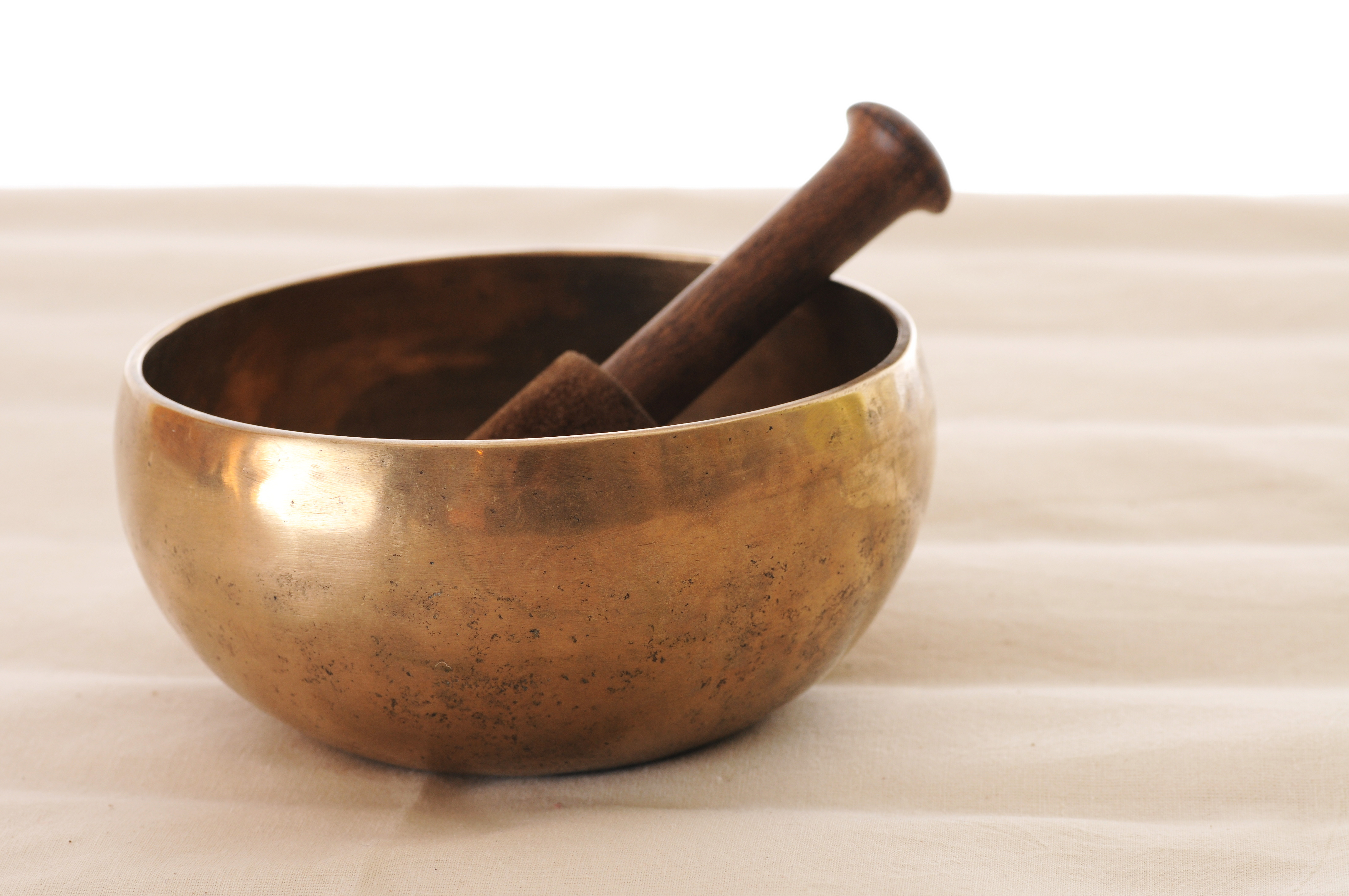 Singing Bowl